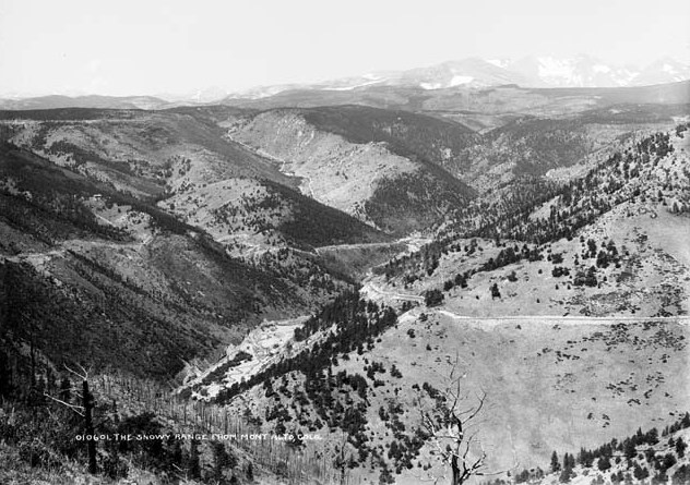 Mont Alto view of railroads, Four Mile Canyon, and Sunset, Boulder County, Colorado by WH Jackson, 1900. Photo at Flickr has annotations identifying railroads, towns and features.